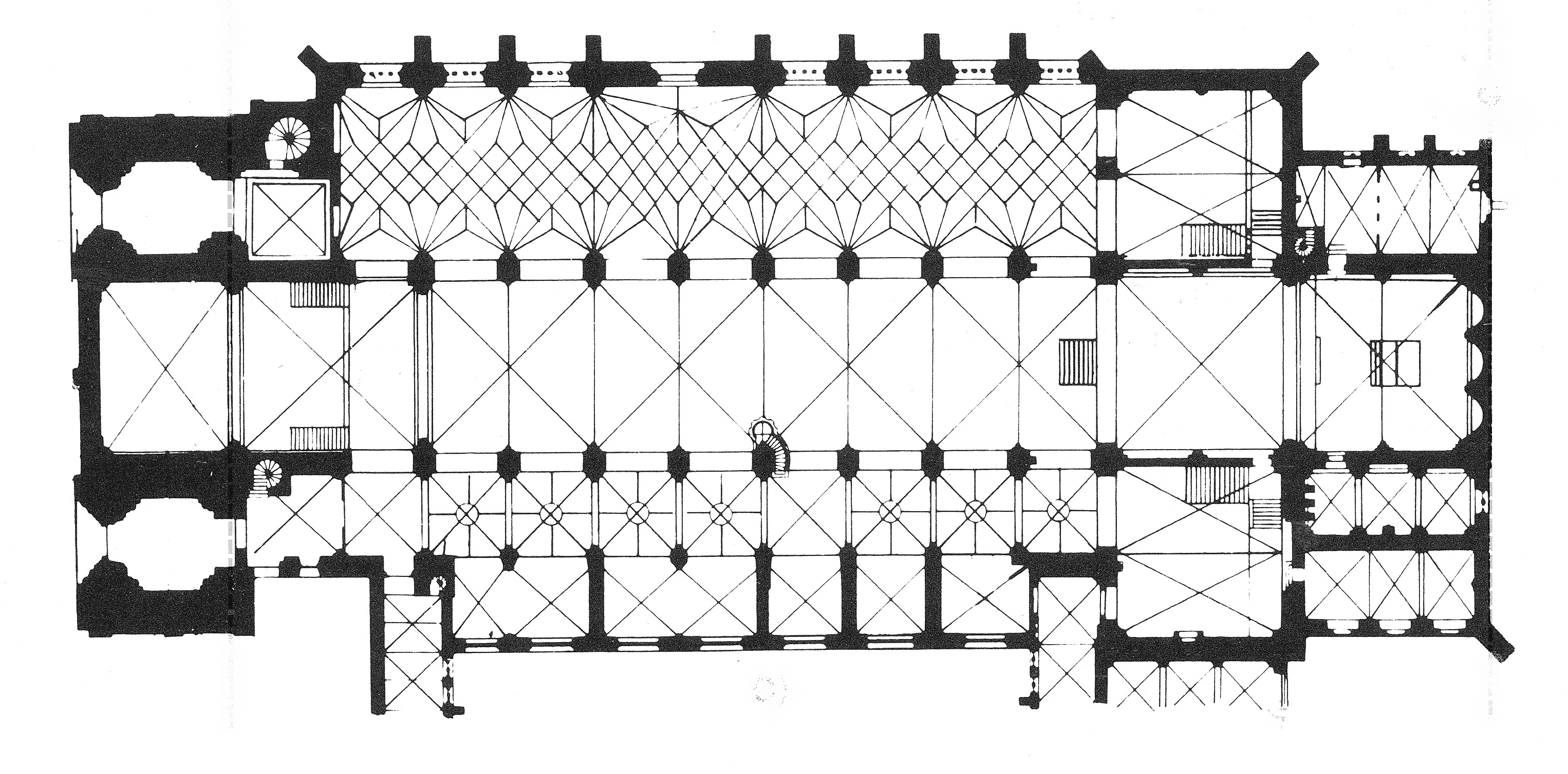 Bremen, Germany, Cathedral, Ground floor, status of 1888